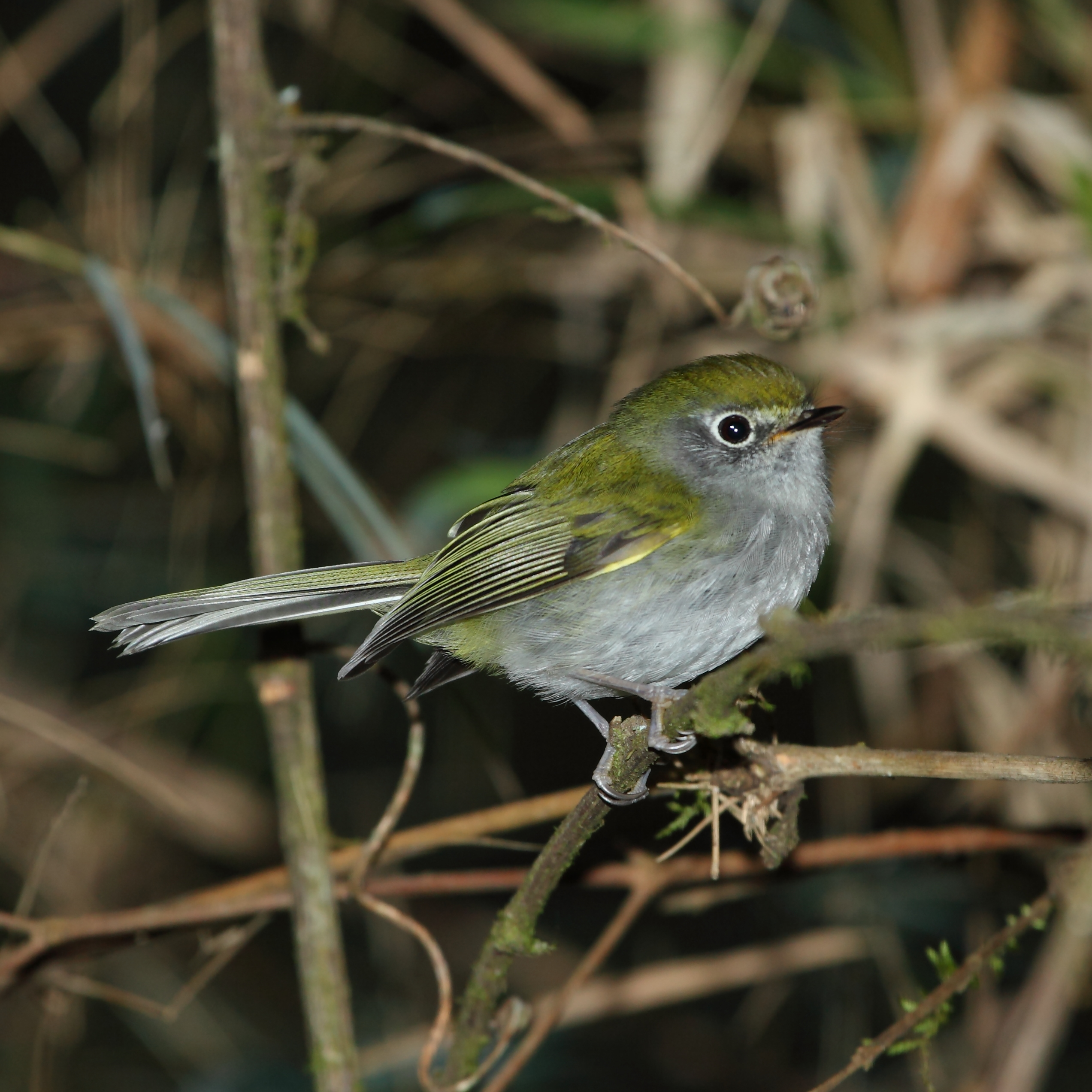 Serra do Mar Tyrannulet at Campos do Jordão - SP - Brazil